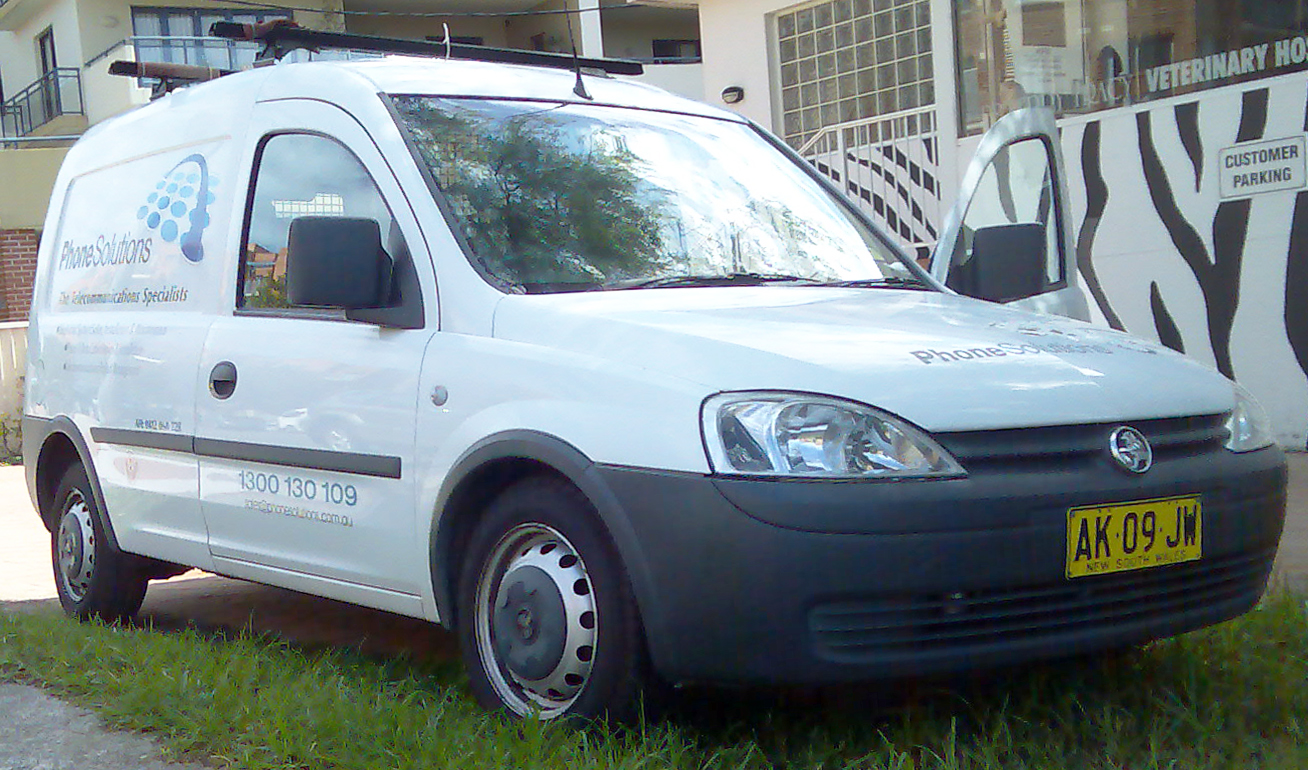 2002–2004 Holden XC Combo van. Photographed in Miranda, New South Wales, Australia.